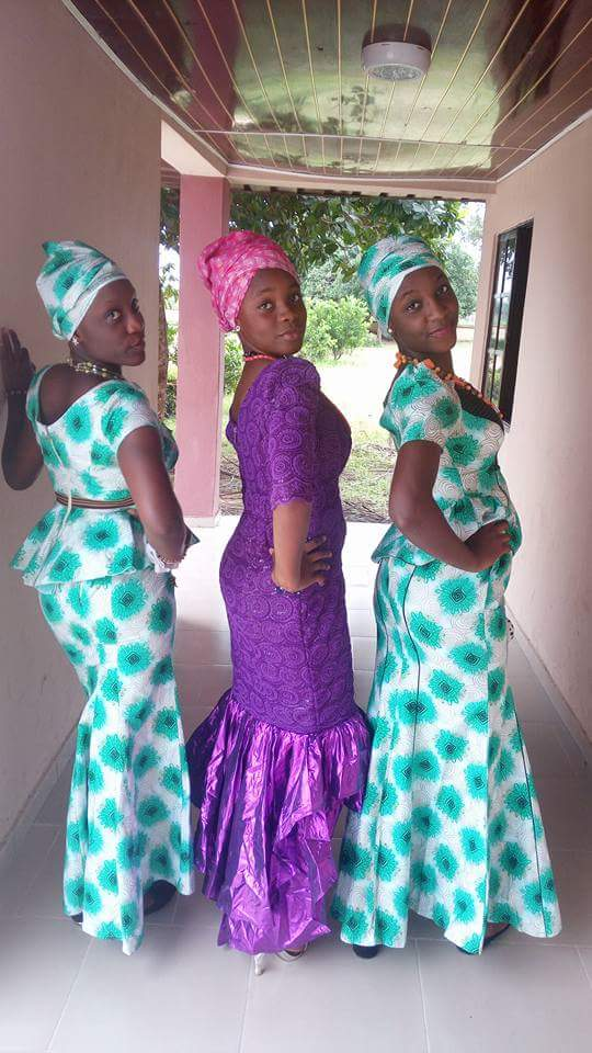 Cultural/Independence Day at Ray Jacobs